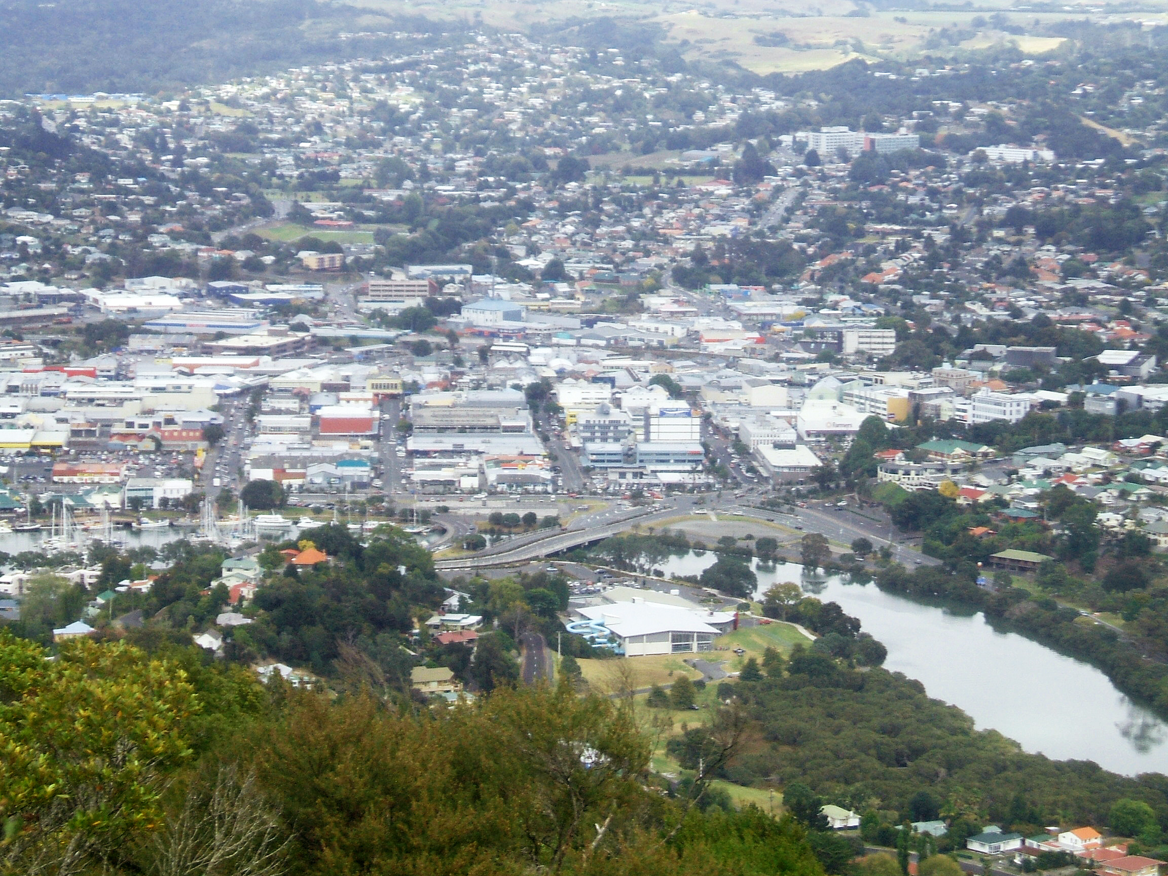 Whangarei town centre taken from Mount Parihaka Māori: Te taaone o Whaangarei-Terenga-Paraaoa mai i te maunga o Parihaka